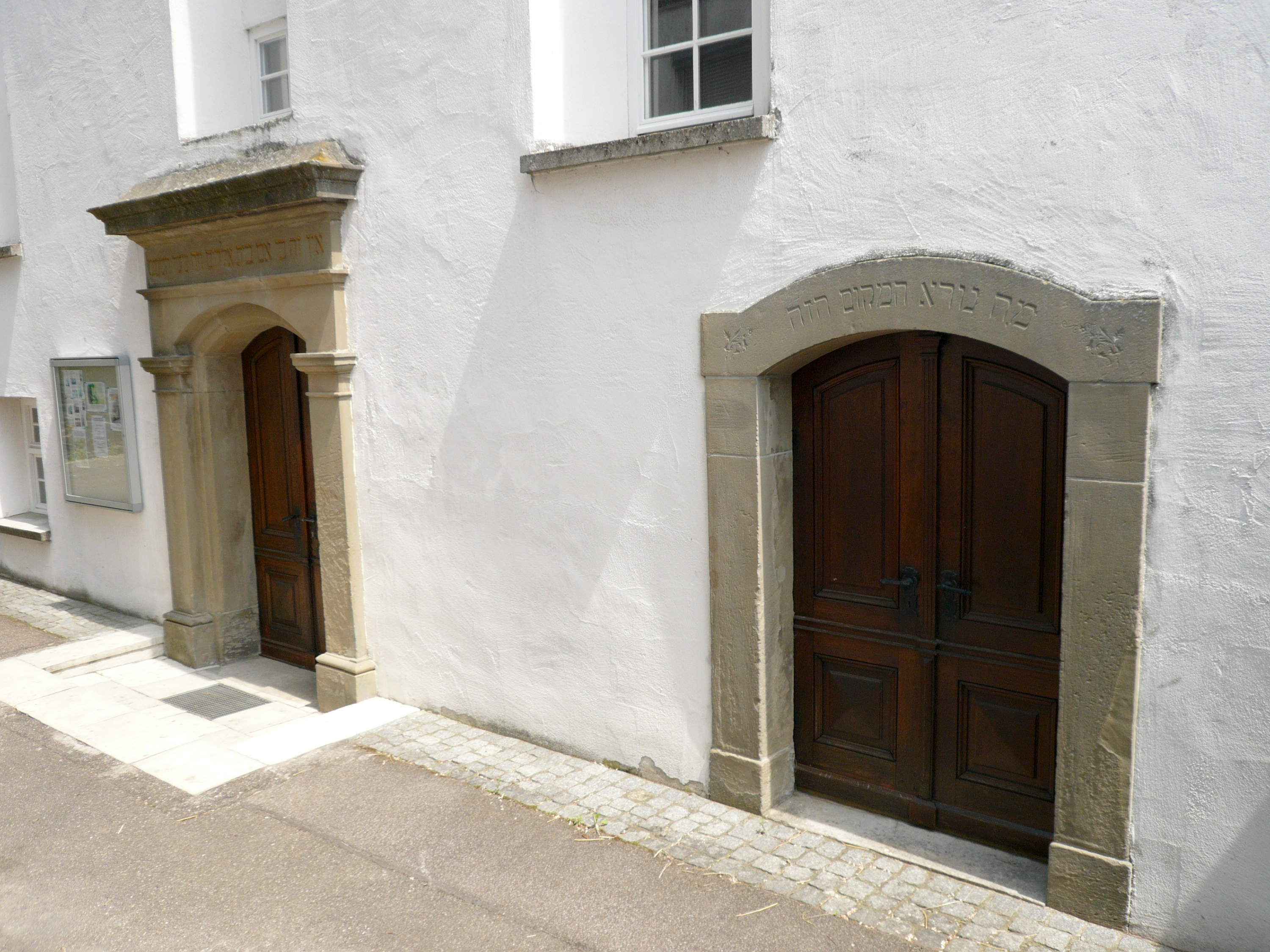 Synagogue at Bopfingen-Oberdorf (entrance), destroyed in 1938, today a museum